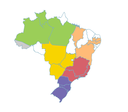 Isoetaceae's Distribuition in Brazil